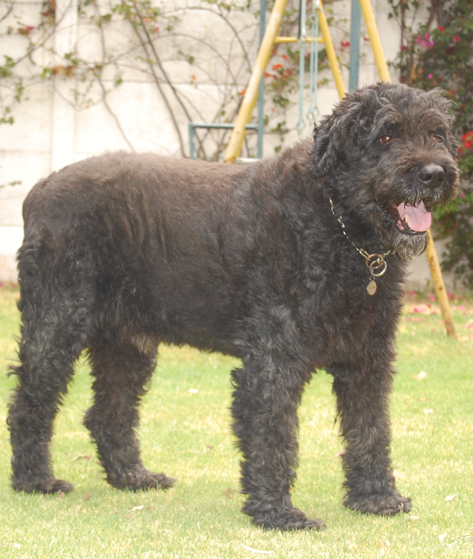 A Bouvier des Flandres in a garden.